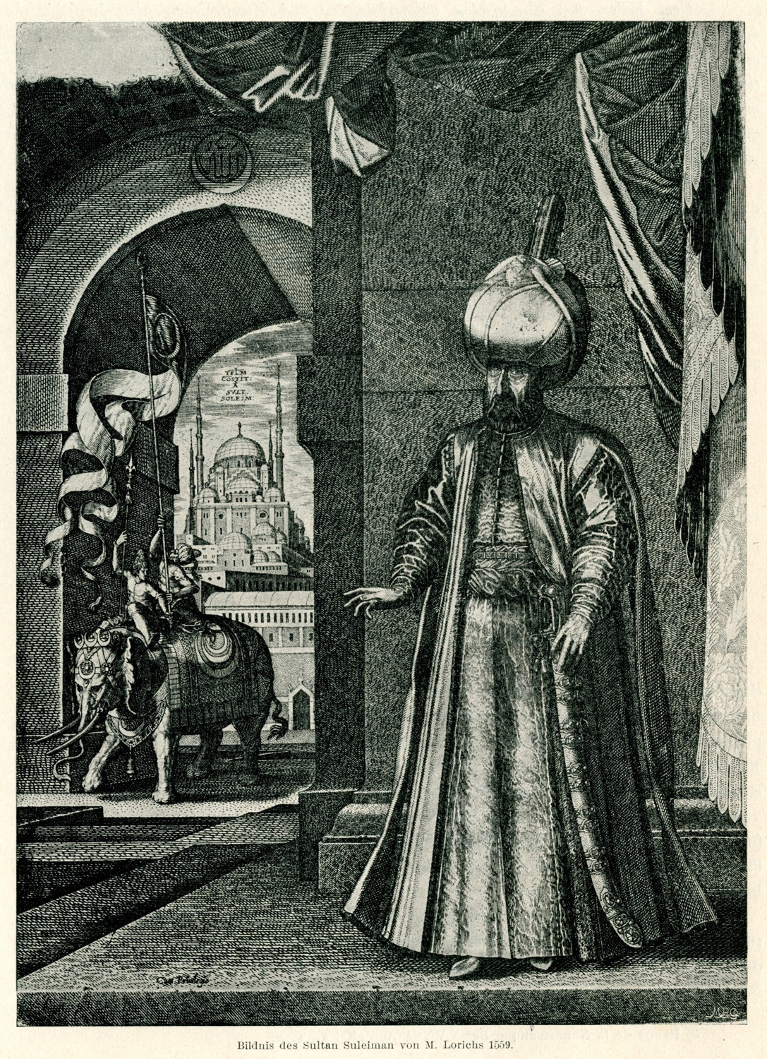 Melchior Lorichs,. Konstantinopel unter Sultan Suleiman dem Grossen aufgenommen in Jahre 1559 durch Melchior Lorichs aus Flensburg nach der Handzeihnung des Künstlers in der Üniversitats-Bibliotek zu Leiden, Munich, R. Oldenbourg, 1902